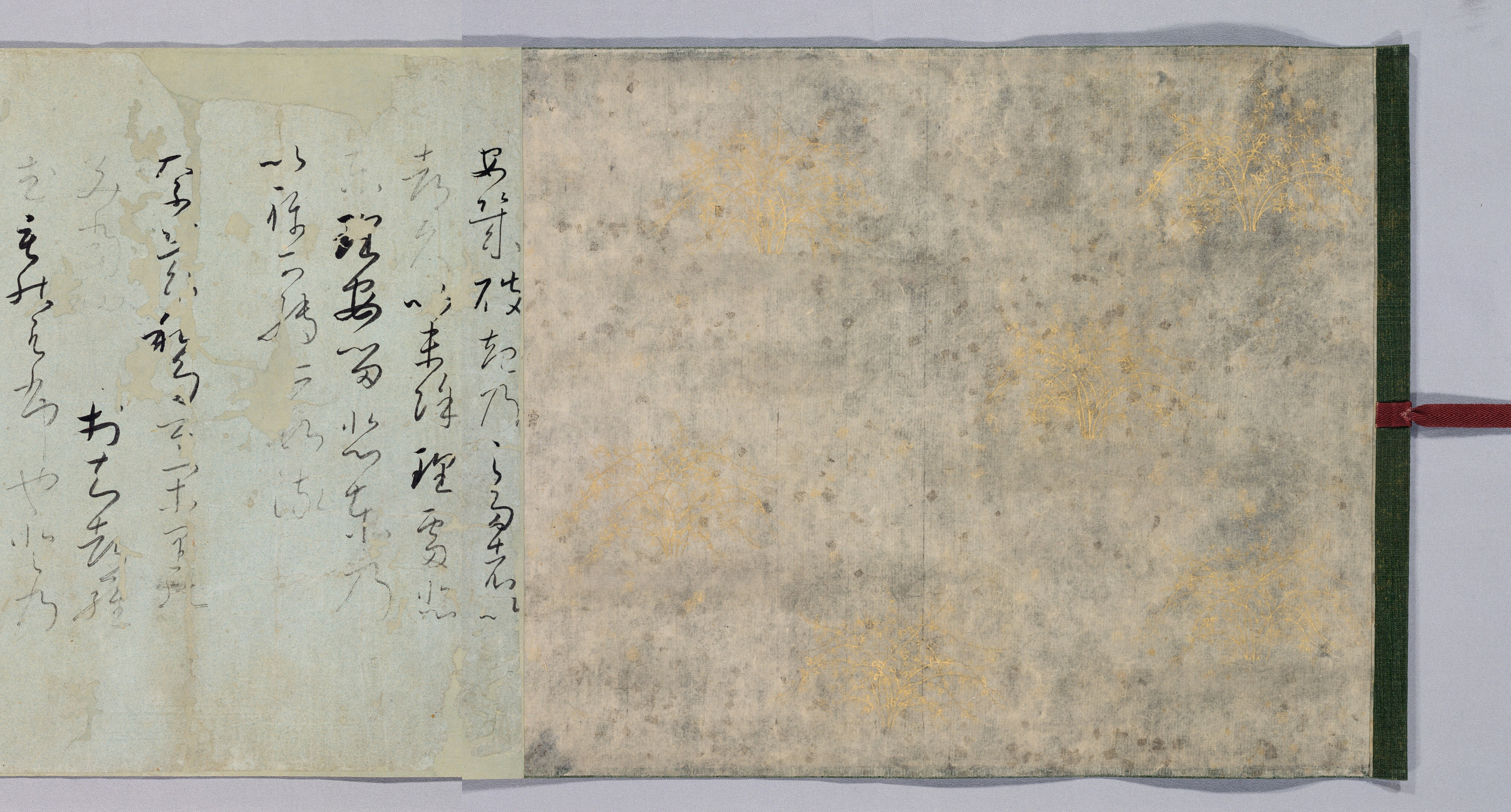 Part of the Akihagi-jō (秋萩帖) from the 10th century by Ono no Michikaze. One handscroll, ink on colored paper. 24.0cm x 842.4cm. Located at the Tokyo National Museum, Tokyo.